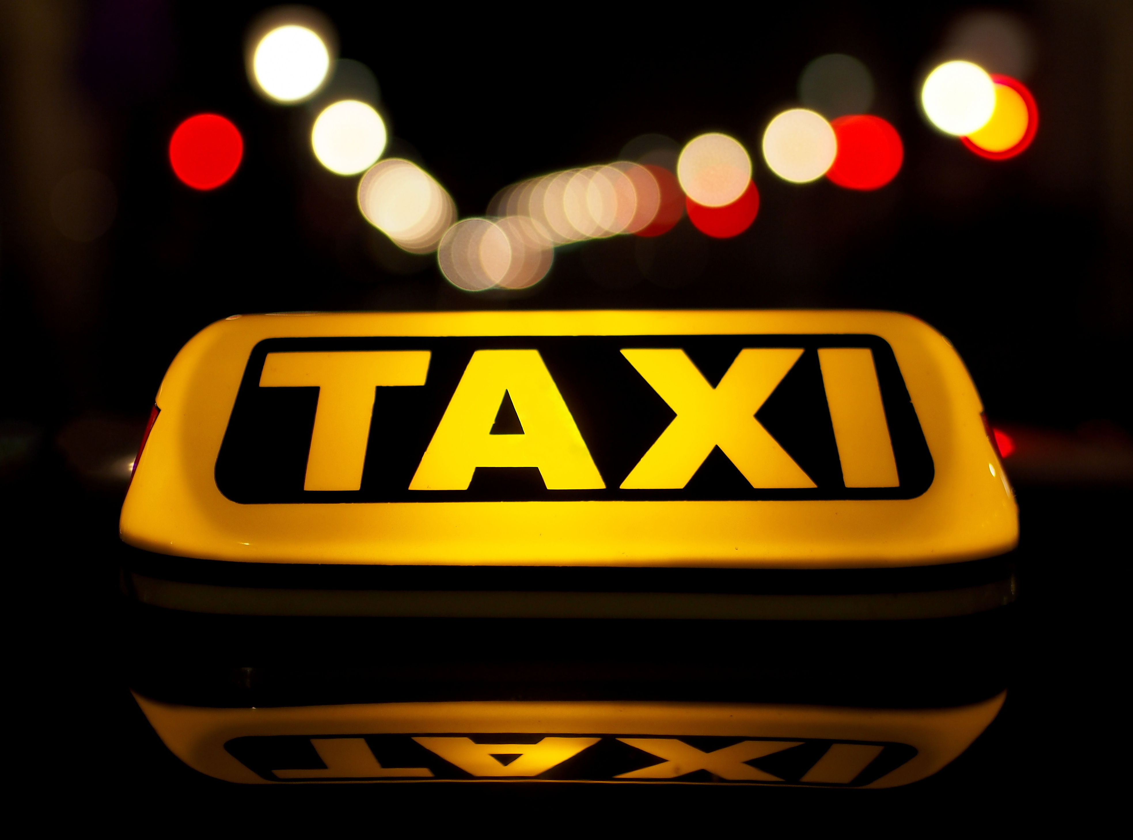 TAXI in night traffic. Ljubljana, Slovenia. This photograph was taken with an Olympus E-P5